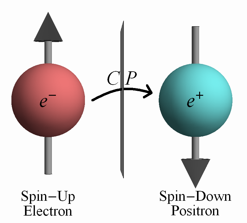 A simple diagram indicating the action of CP: CP reverses all spatial axes and takes particles to antiparticles. In this diagram, CP takes a spin-up electron to a spin-down positron.